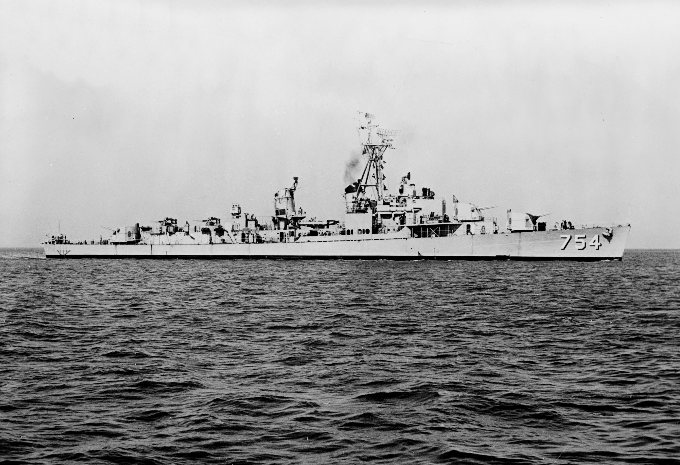 The U.S. Navy destroyer USS Frank E. Evans (DD-754) off the San Francisco Naval Shipyard, California (USA), on 15 August 1956, following a regular overhaul.